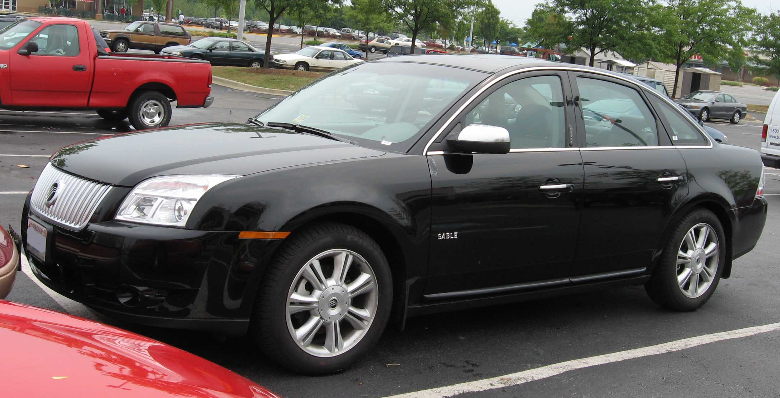 2008 Mercury Sable photographed in USA.